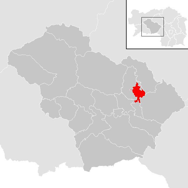 district Murtal in Styria, Austria